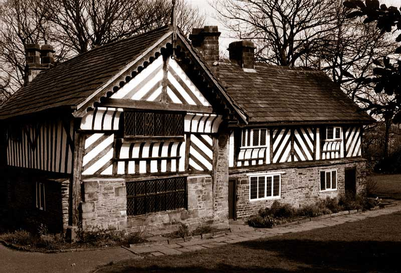 Bishops' House, Sheffield, England.